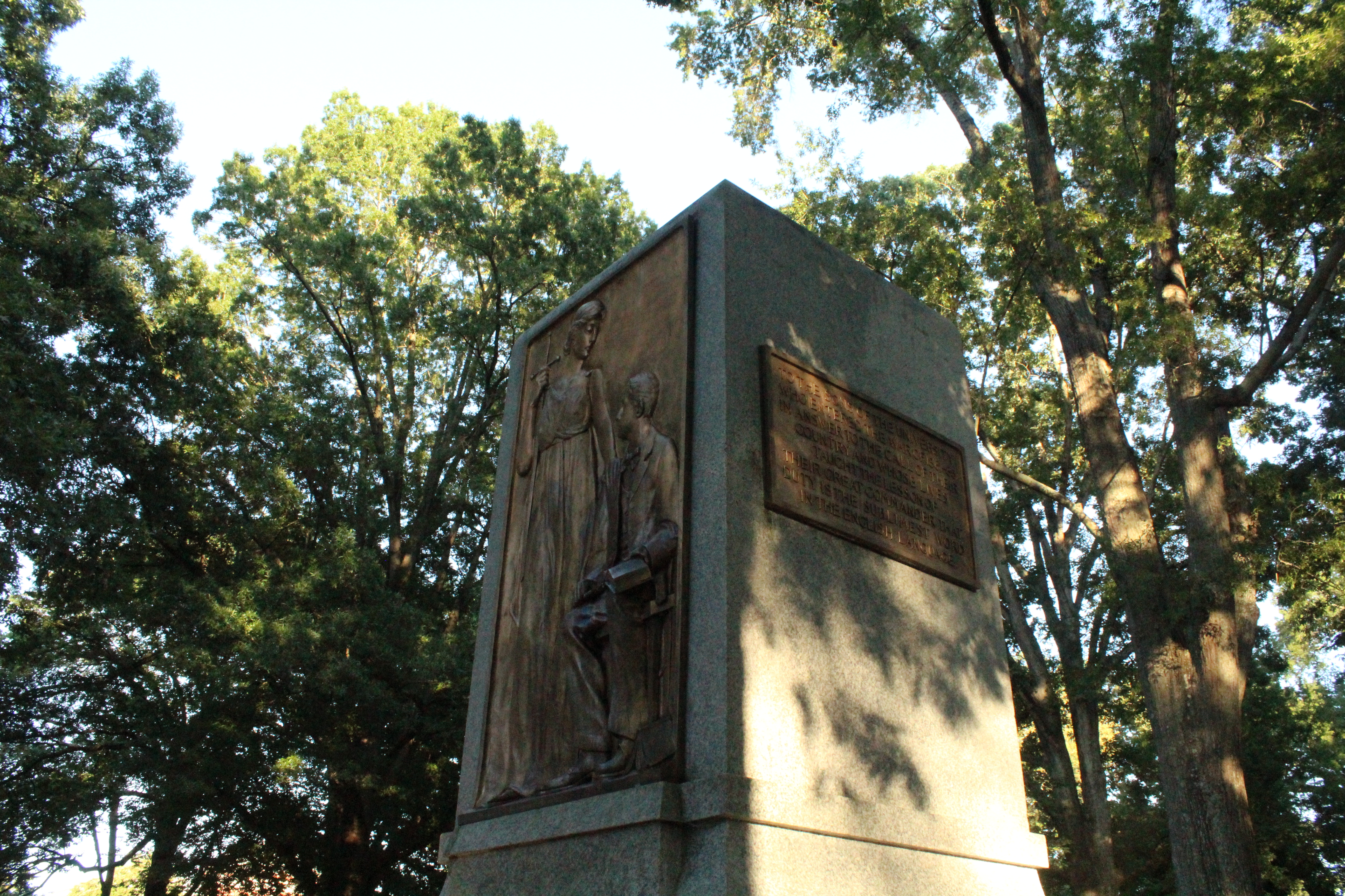 The pedestal of Silent Sam after it was removed on August 20, 2018